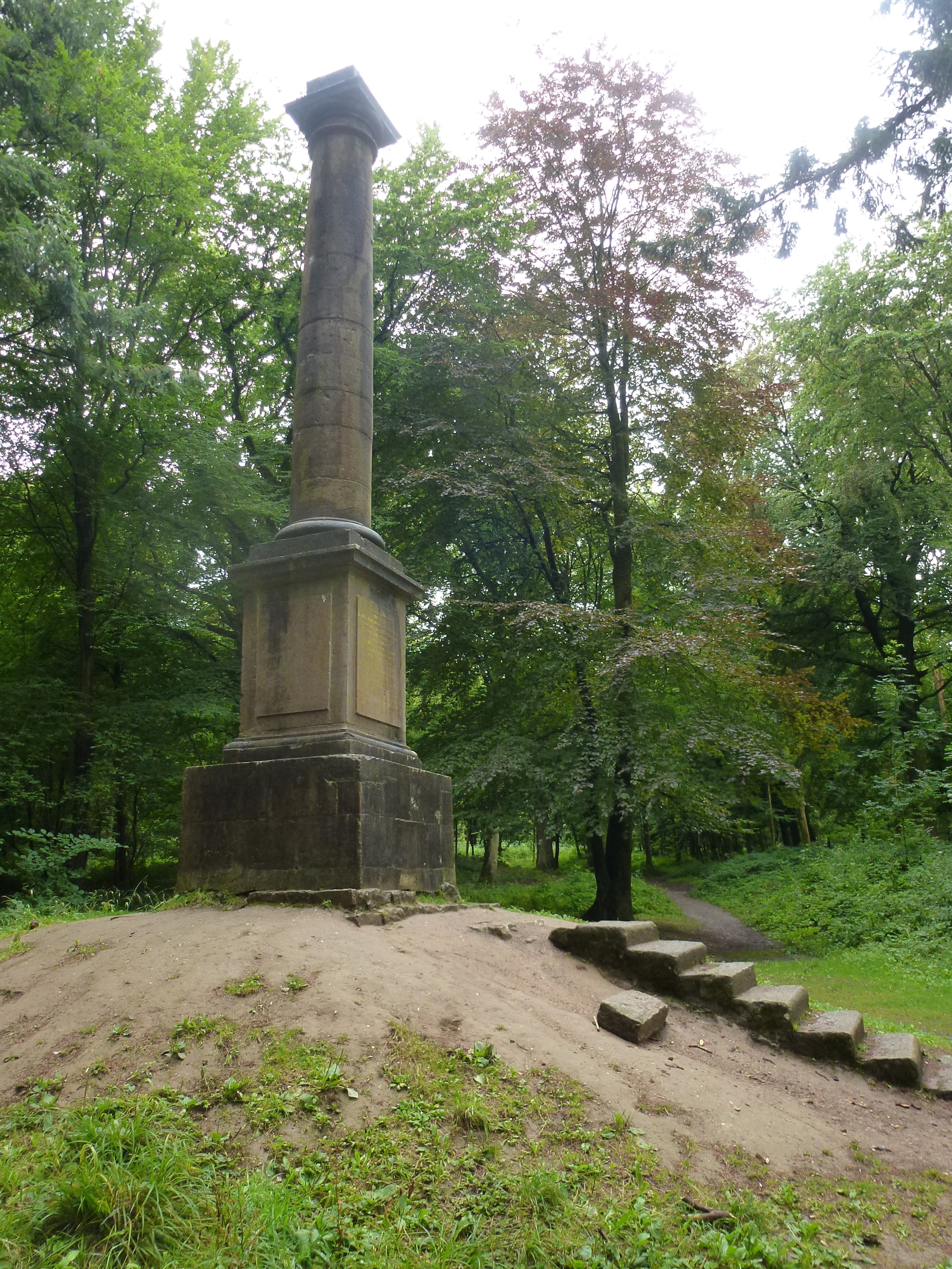 Guînes (Pas-de-Calais) forêt de Guînes, Colonne Blanchard